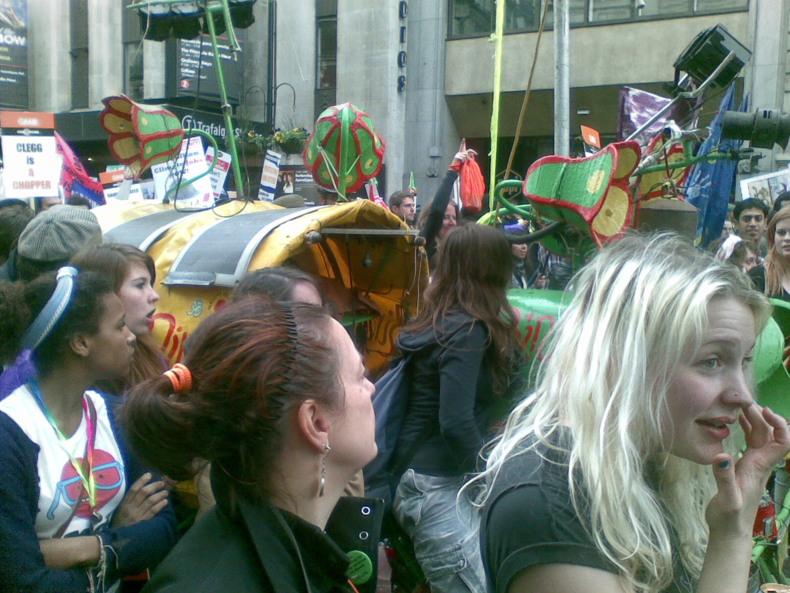 A tactical frivolity float, surrounded by protestors at the March 2011 anti cuts Protests in London England.